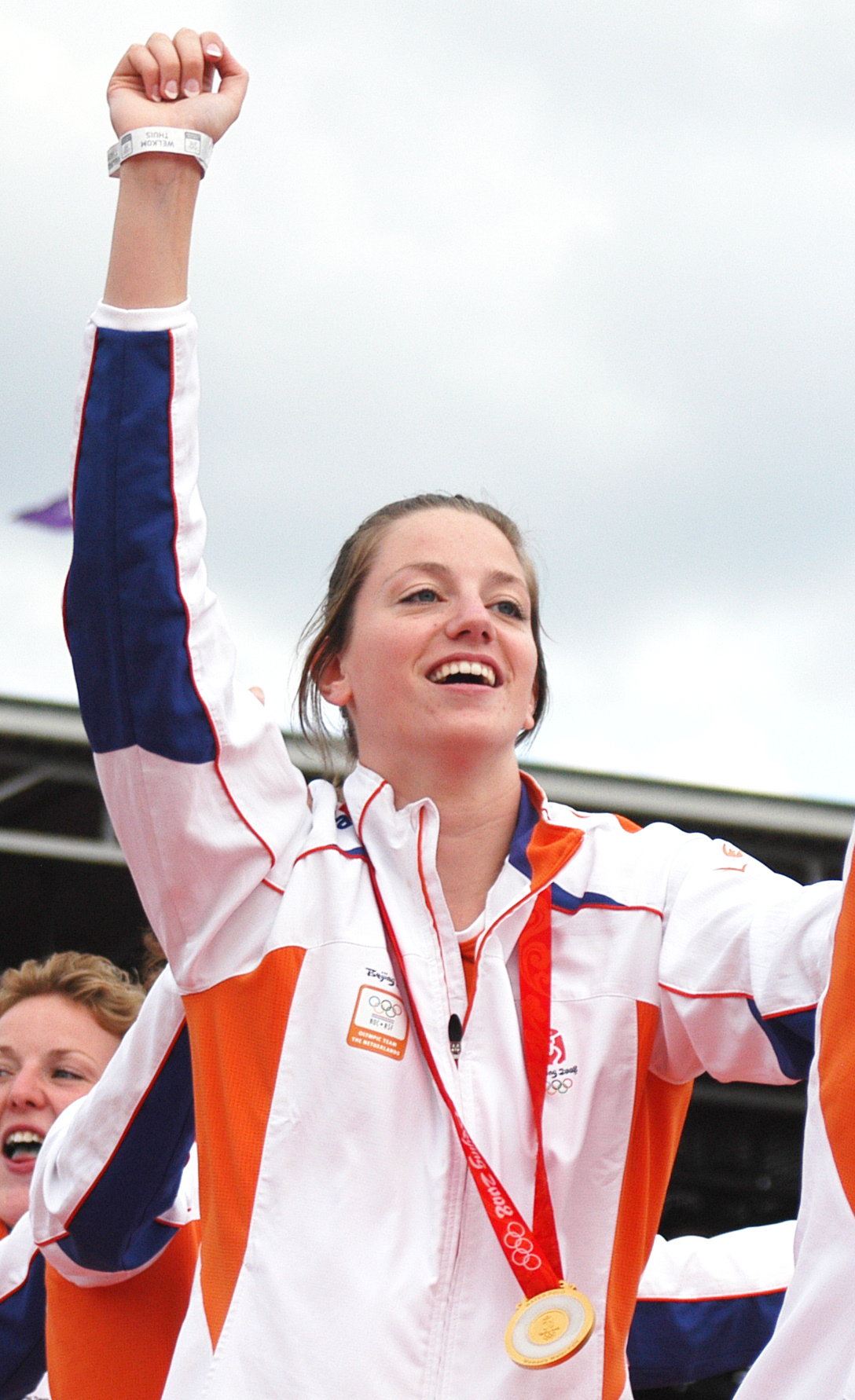 Iefke van Belkum at the Olympic welcome in the Olympic Stadium in Amsterdam, the Netherlands.